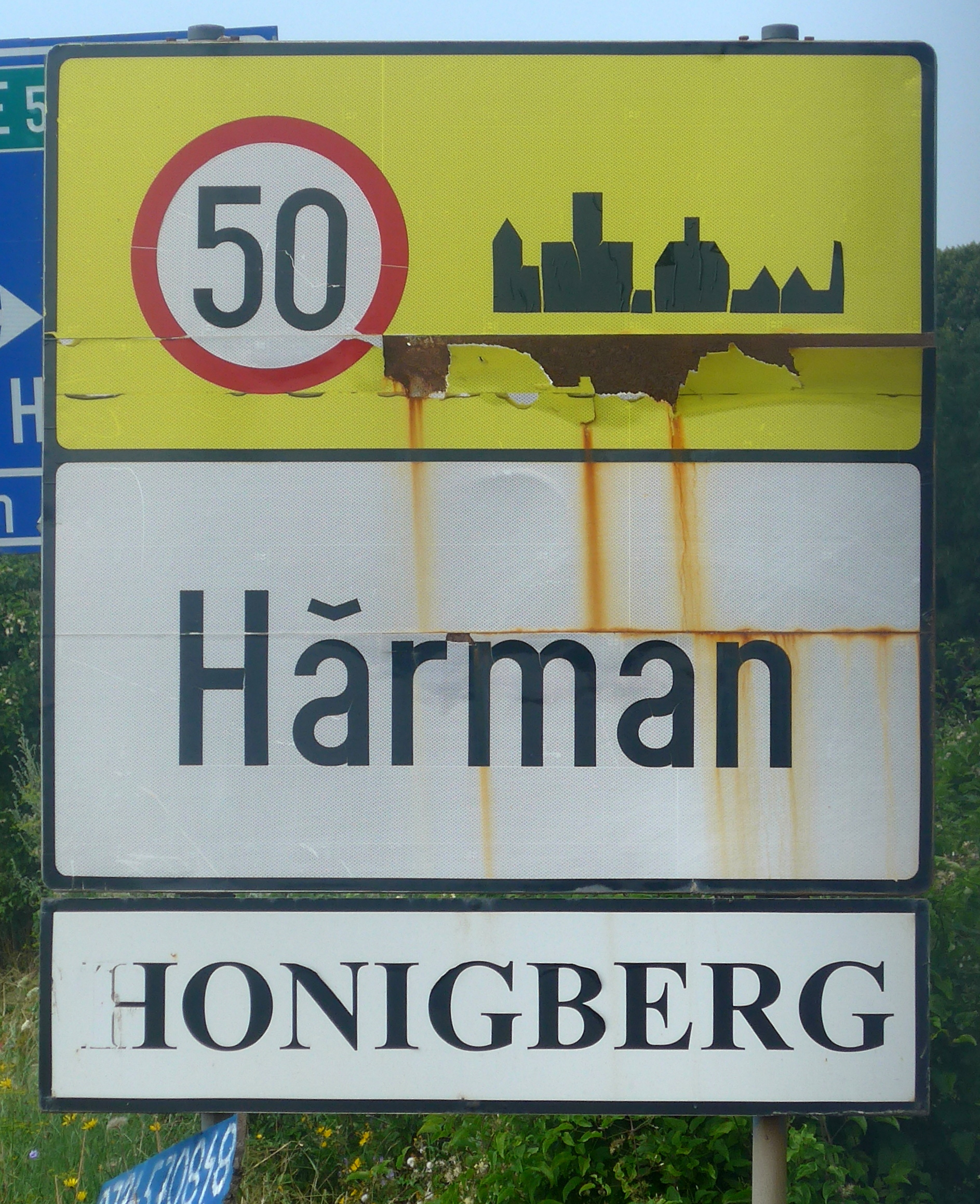 Official bilingual town sign of Harman/Honigberg in Romania